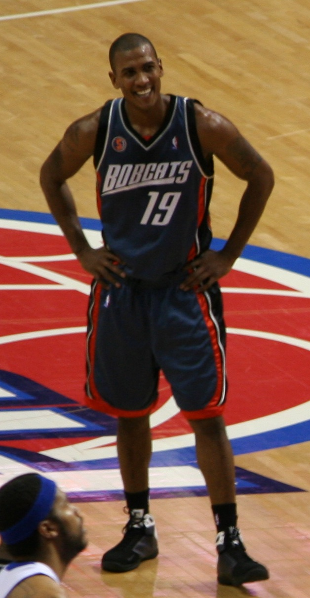 Raja Bell of the Charlotte Bobcats